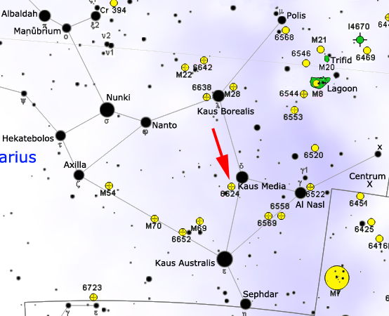 Map of NGC 6624